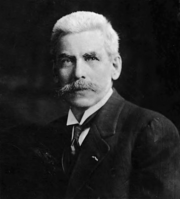 Photo of Cyrus B. Lower, which was published on p. 2 of his 1899 book, "We Rode with Little Phil and Other Poems." Lower, a native of Lawrence County, Pennsylvania who was awarded the U.S. Medal of Honor in 1887 for his gallantry during and after the Battle of the Wilderness in Virginia in May 1864, was twice wounded in combat. Shot in the hand while fighting as a private with the 23rd Ohio Infantry near Antietam on September 18, 1862, he was then shot in the thigh on May 7 while fighting with Company K of the the 13th Pennsylvania Reserve Regiment (also known as the "Bucktails" or 42nd Pennsylvania Infantry). Continuing to serve with his regiment, he was captured by Confederate troops on May 30, but escaped on June 13 by jumping from the train which was transporting him to the CSA prison camp at Andersonville, Georgia. After successfully connecting with his regiment in northern, Virginia, he continued to serve until mustering out on June 28, 1865.